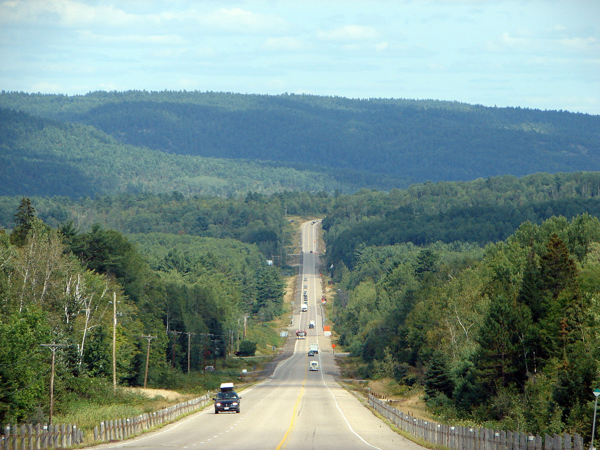 Highway 17 near Bissett Creek, Ontario, Canada